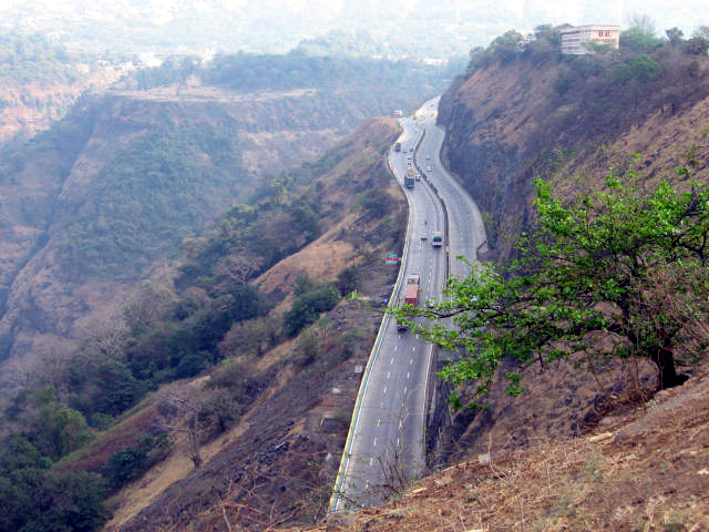 taken from Rajmachi point at Khandala, Lonavala. aerial view of Expressway